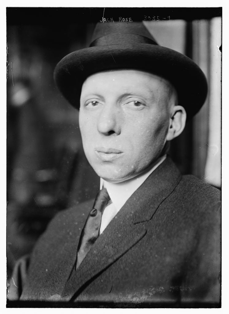 Jack Rose -- the Bronx - 7th Insp. Dist. (LOC) Bain News Service,, publisher. Jack Rose in 1915 -- the Bronx - 7th Insp. Dist. [between ca. 1910 and ca. 1915] 1 negative : glass ; 5 x 7 in. or smaller. Notes: Title from unverified data provided by the Bain News Service on the negatives or caption cards. Forms part of: George Grantham Bain Collection (Library of Congress). Format: Glass negatives. Repository: Library of Congress, Prints and Photographs Division, Washington, D.C. 20540 USA, General information about the Bain Collection is available at Persistent URL: Call Number: LC-B2- 3035-9